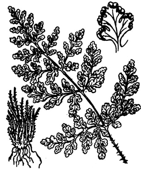 Cheilanthes acrostica Hippolyte Coste - Flore descriptive et illustrée de la France, de la Corse et des contrées limitrophes, 1901-1906